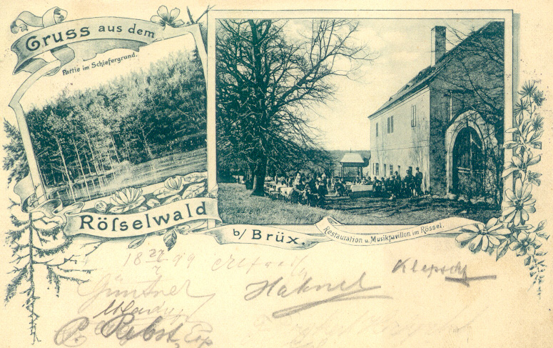 Ressl- Most